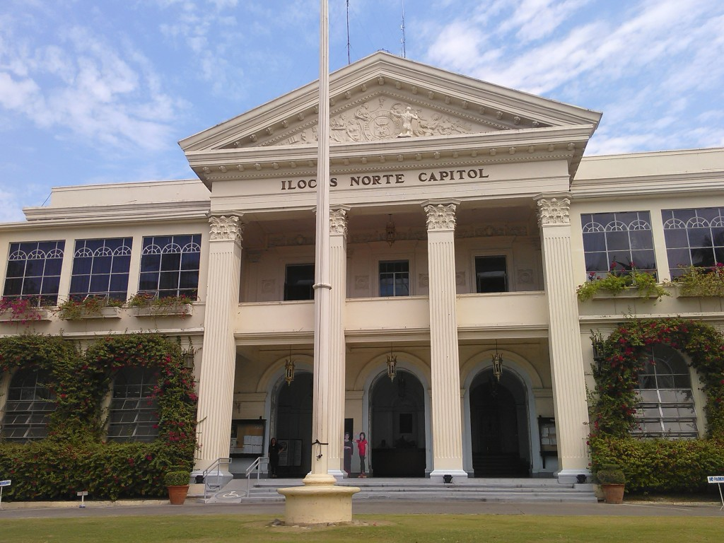 Ilocos Norte Provincial Capitol